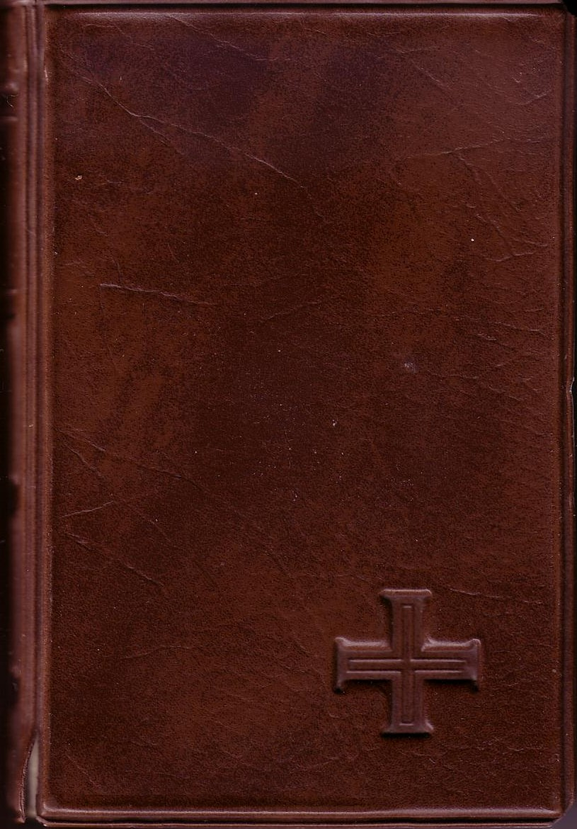 Gotteslob — German Catholic hymnal